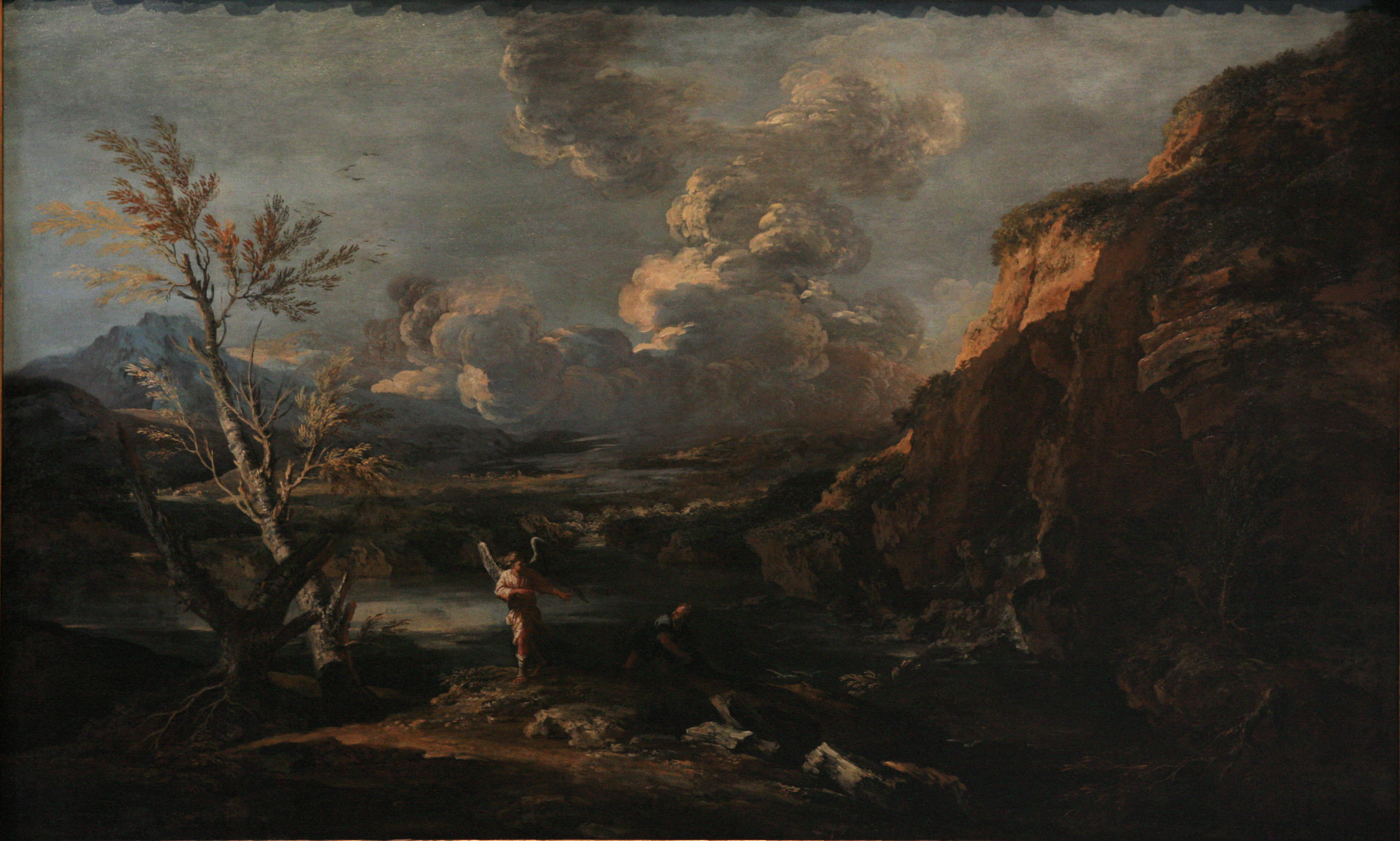 Landscape with Tobit and the angel, Salvator Rosa, oil on canvas, circa 1670. Accession number 181